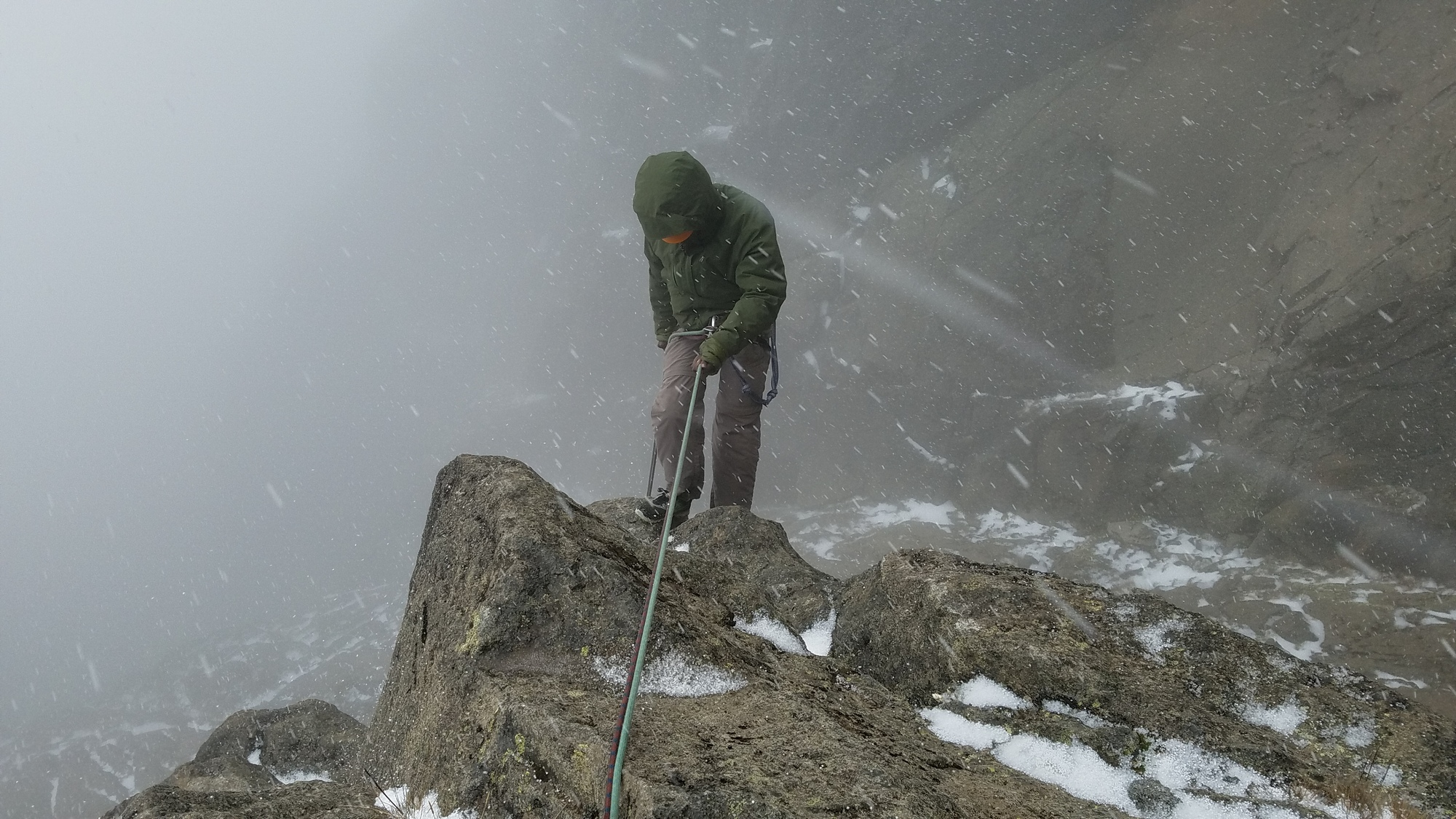 This is an image of "African people at work" from Kenya